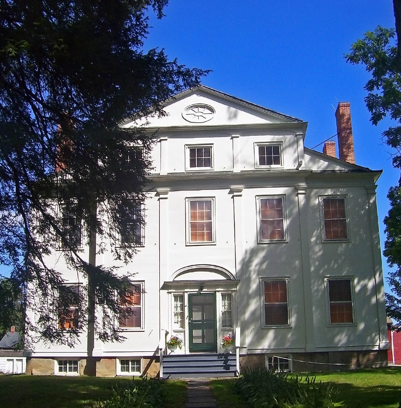 Locust Lawn Estate in the Town of New Paltz, NY, USA